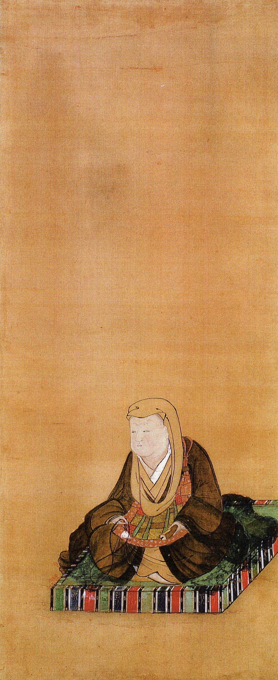 Portrait of Yōtoku-in (Megohime)